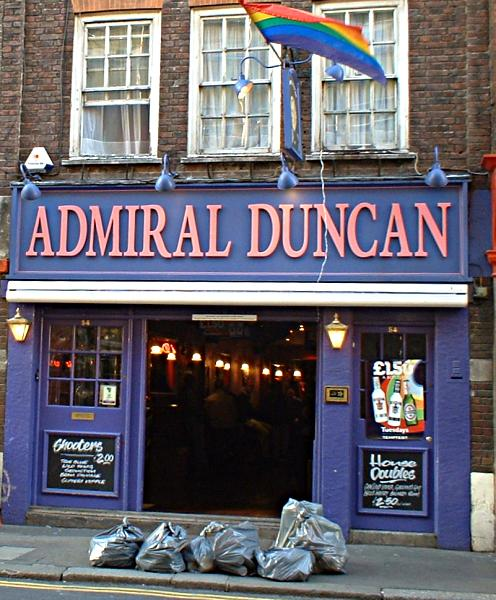 Admiral Duncan pub taken by C Ford March 04.